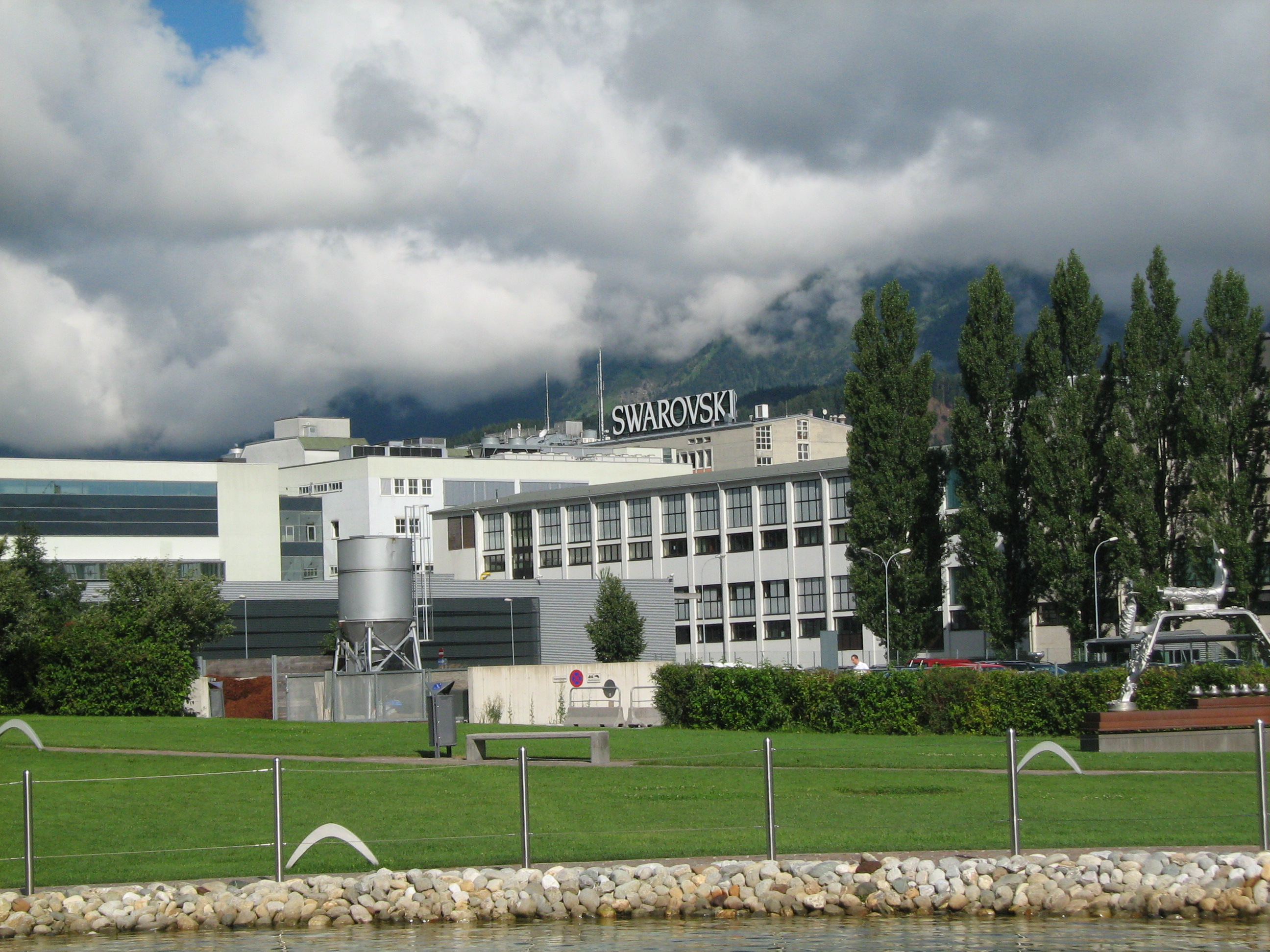 Swarovski Kristallwelten in Wattens close to Innsbruck in Austria. August 7, 2012.